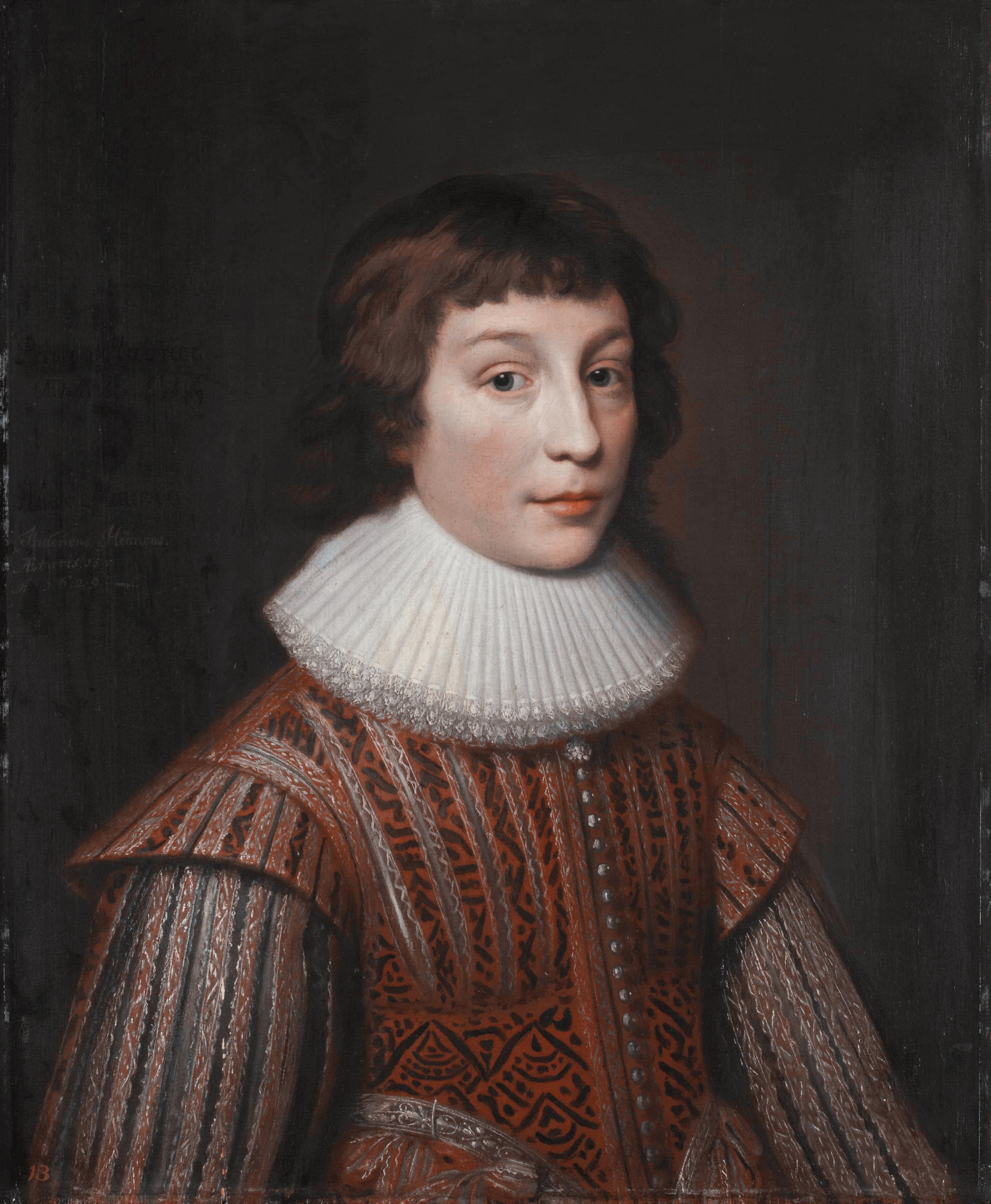 a saleroom notice said: Le personnage représenté est Frederik Hendrik van de Palts, fils d'Elisabeth Stuart et Frederik V. The sitter is Frederik Hendrik van de Palts, son of Elisabeth Stuart and Frederik V)